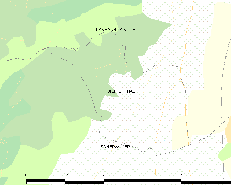 Map of French municipality